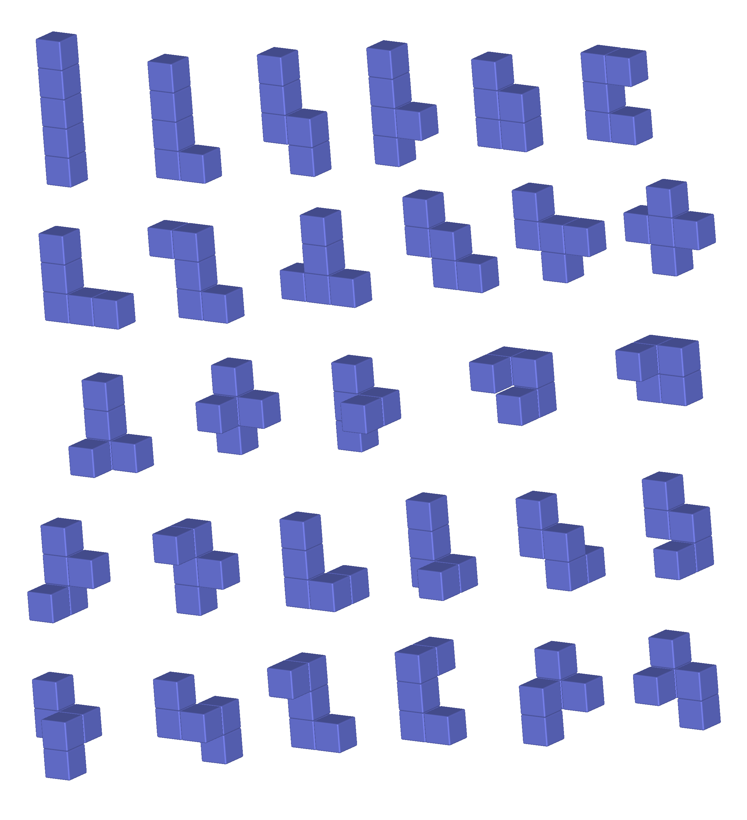 3D image of the n=5 polycubes or pentacubes, rendered in blue